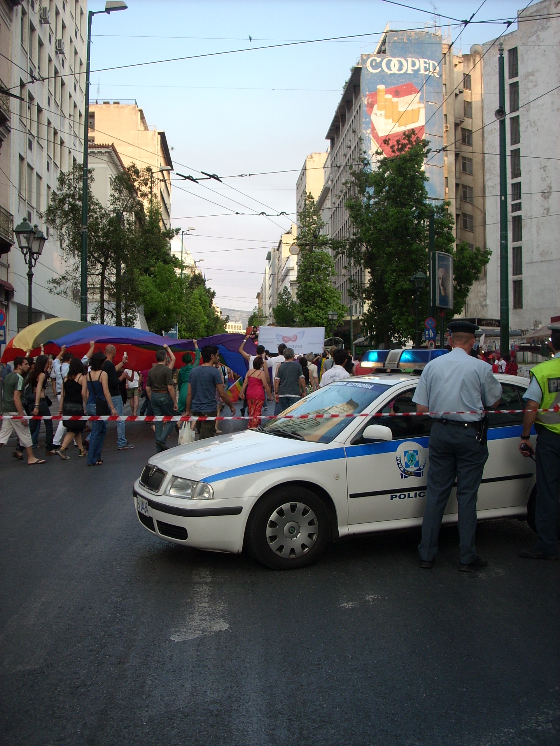 Athens Pride 2009